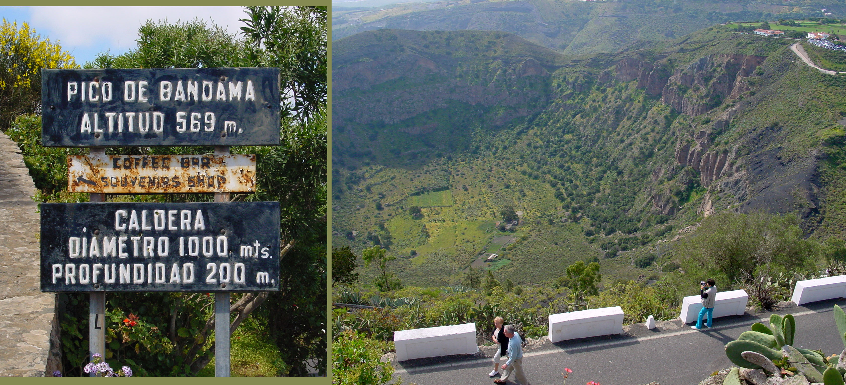 Caldera Bandama: view to the volcanic crater, looking direction south-south-east.